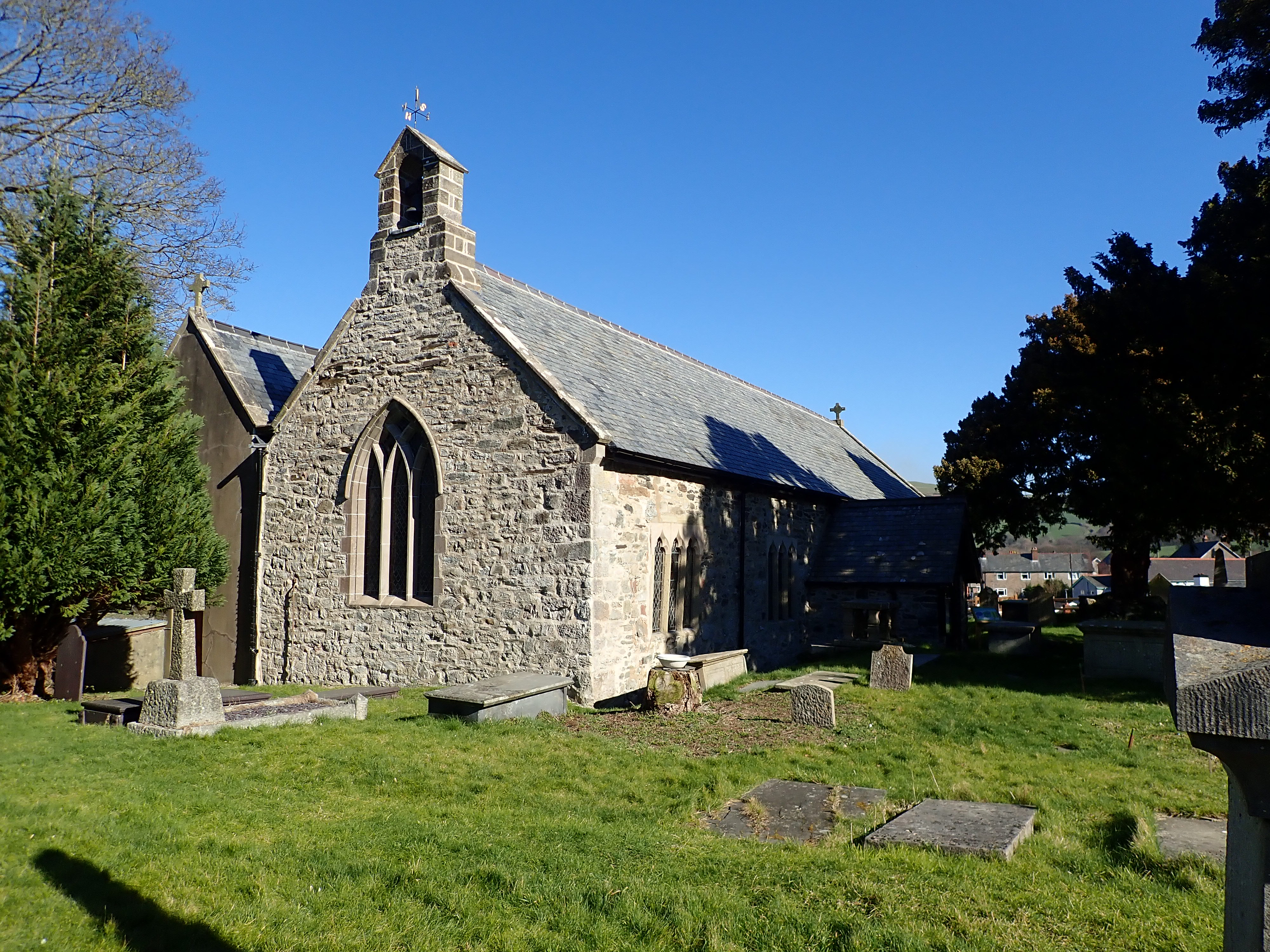 St Mary's Church